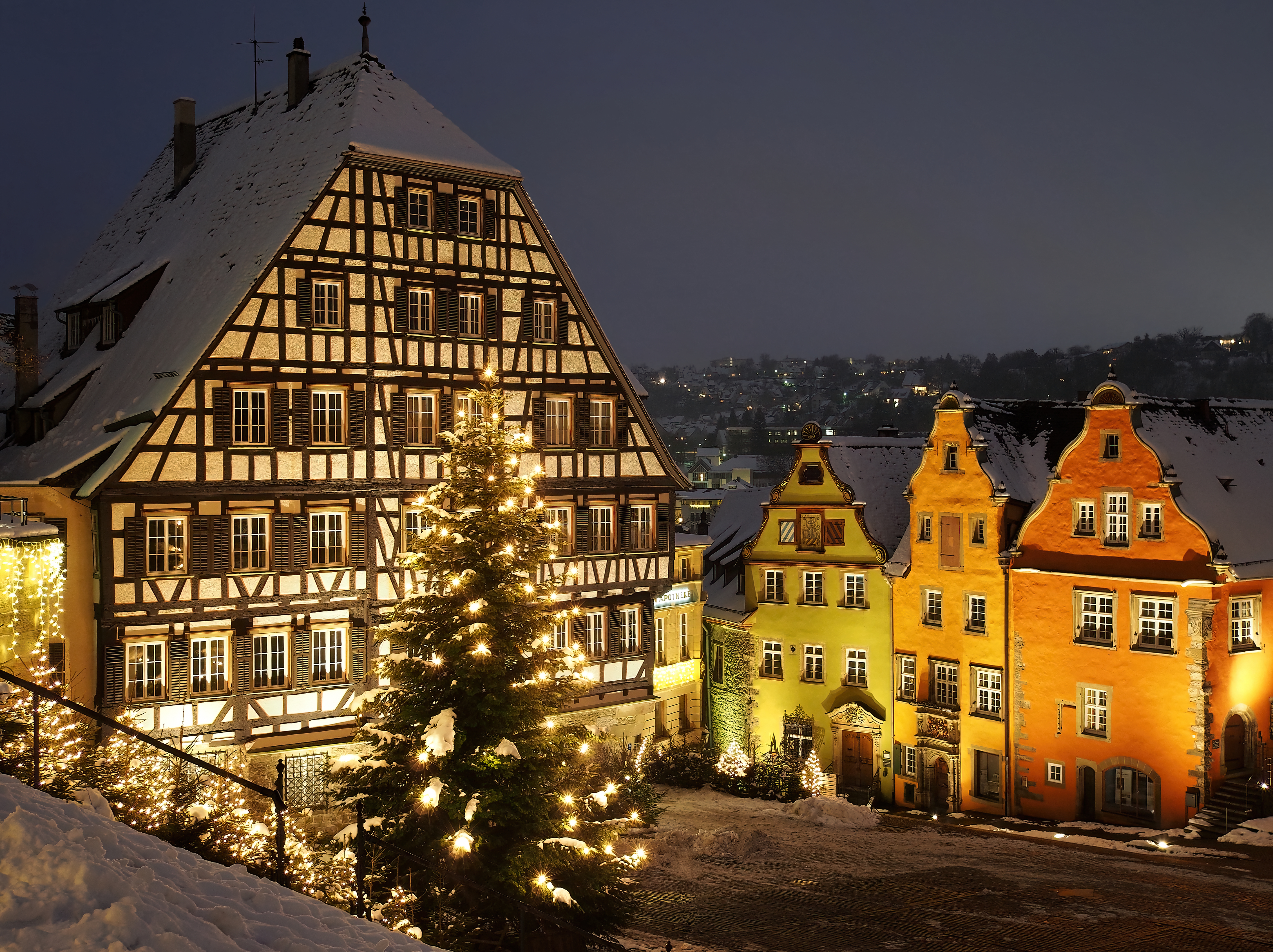 Schwäbisch Hall (Marktplatz) in winter.Baden-Württemberg, Germany. Српски (ћирилица): Швебиш Хал зими, покрајина Баден-Виртемберг, Немачка.